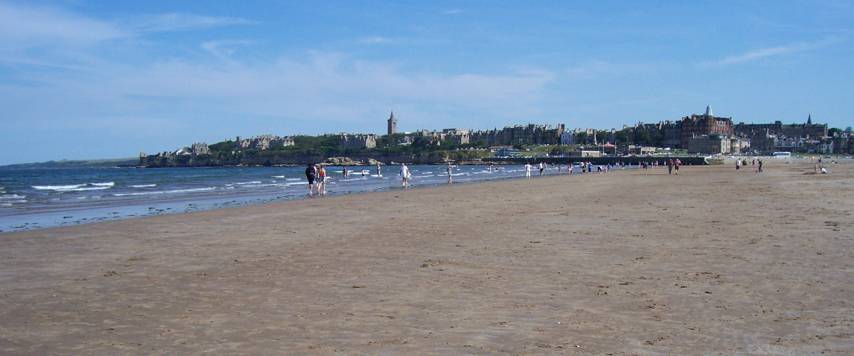 View of St Andrews from the West Sands.